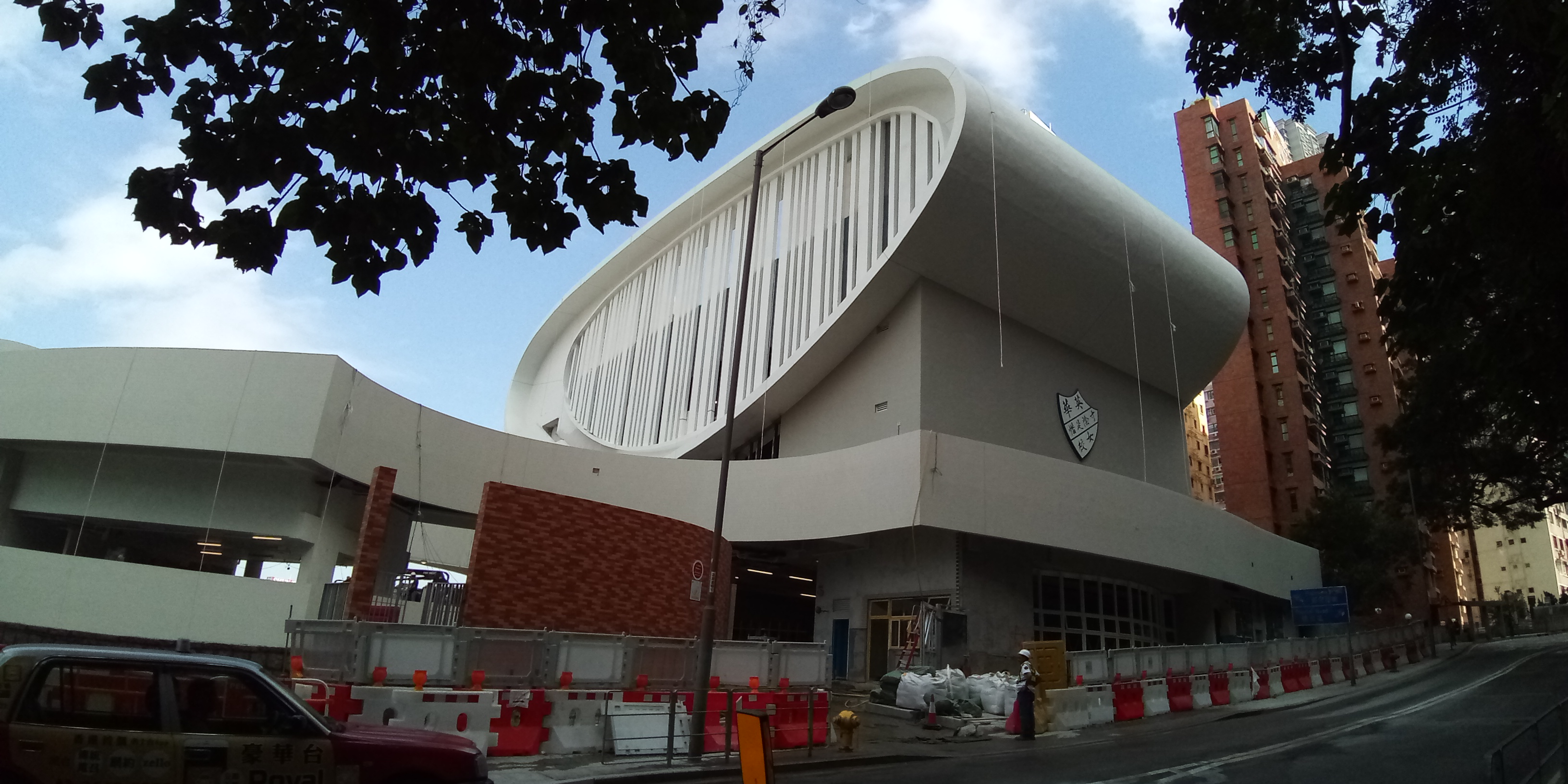 76 Robinson Road, West Point 中文（香港）: 西環羅便臣道76號